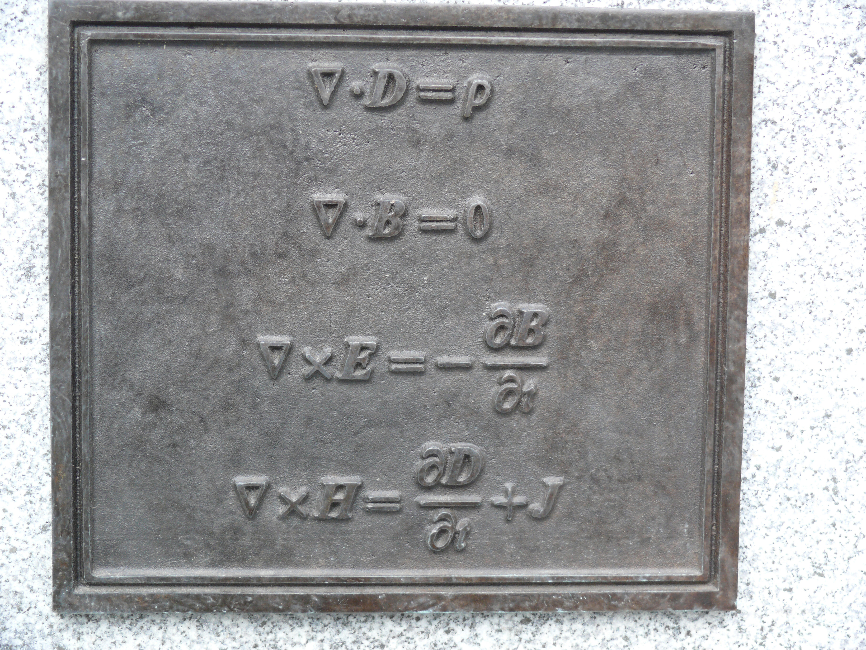 Maxwell's equations on a statue in honour of James Clerk Maxwell at the end of George Street (St. Andrew Square side) in Edinburgh.